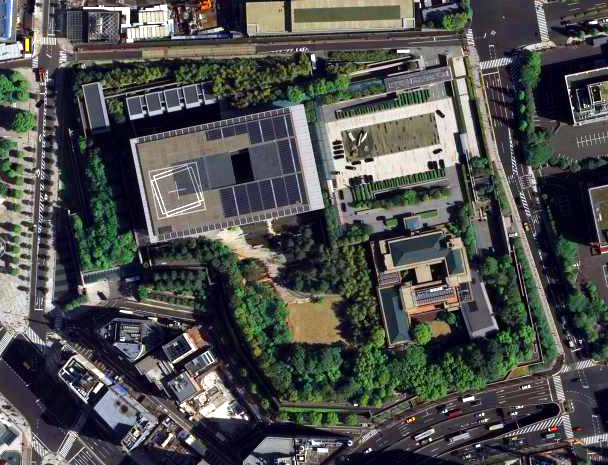 The Geographical Survey Institute took the aerial photograph in Chiyoda Ward, Tōkyō Metropolis on April 27, 2009.